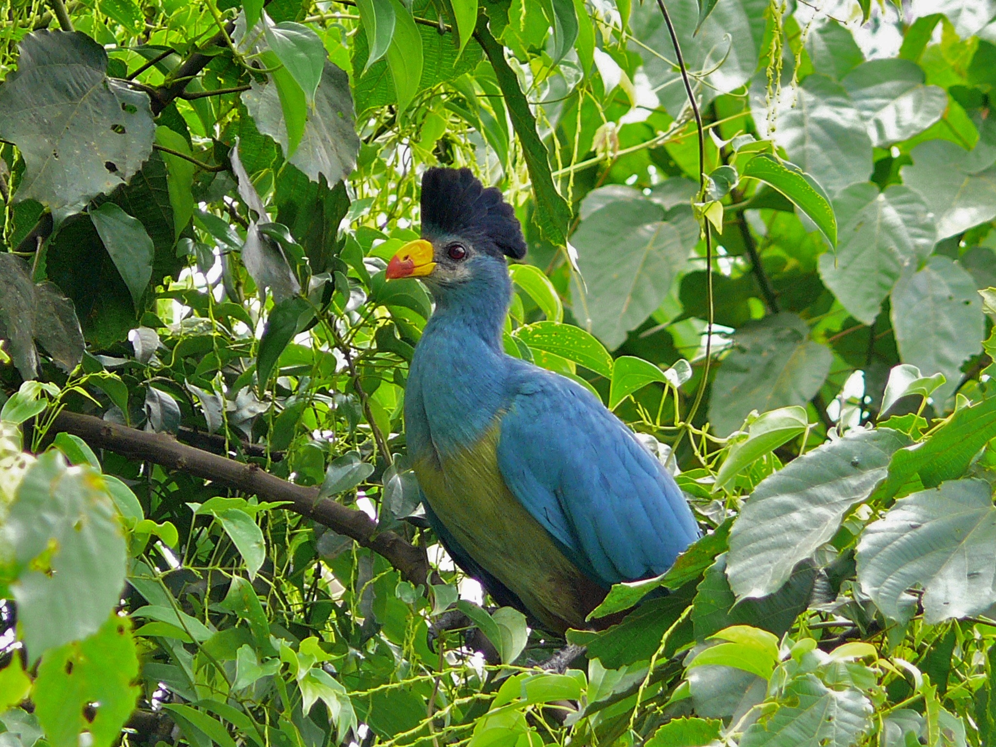 Bigodi Wetland Sanctuary, UGANDA